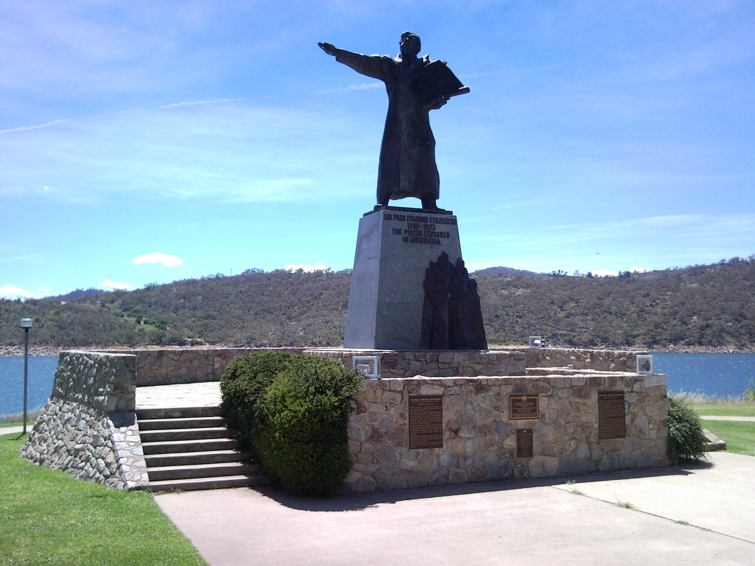 Statue of Sir Paul Strzelecki, Lake Jindabyne, NSW - Camera phone upload powered by ShoZu